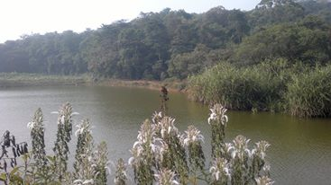 It is a square in kunhome,here proposed a Heritage musiem